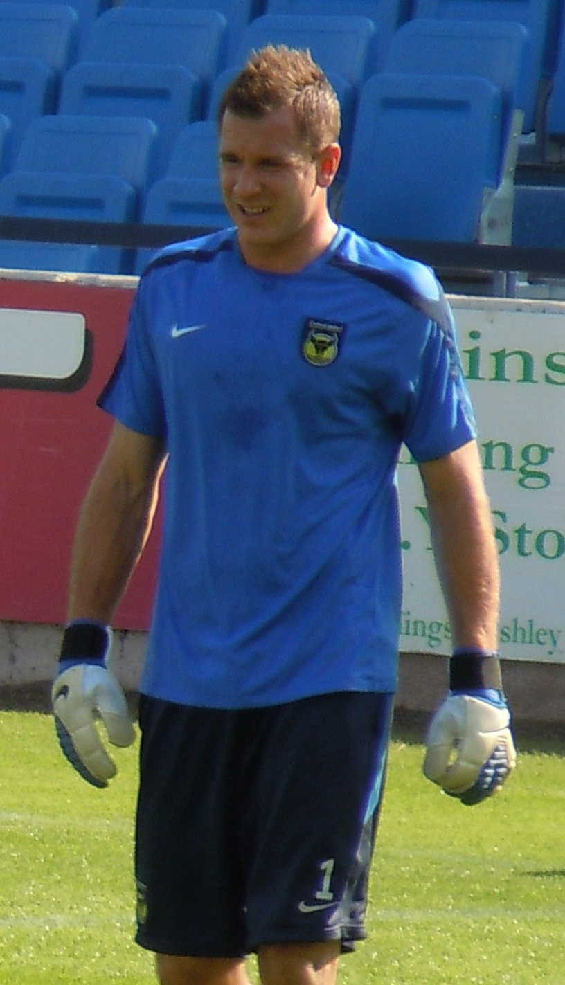 Ryan Clarke. Image cropped from original at flickr.